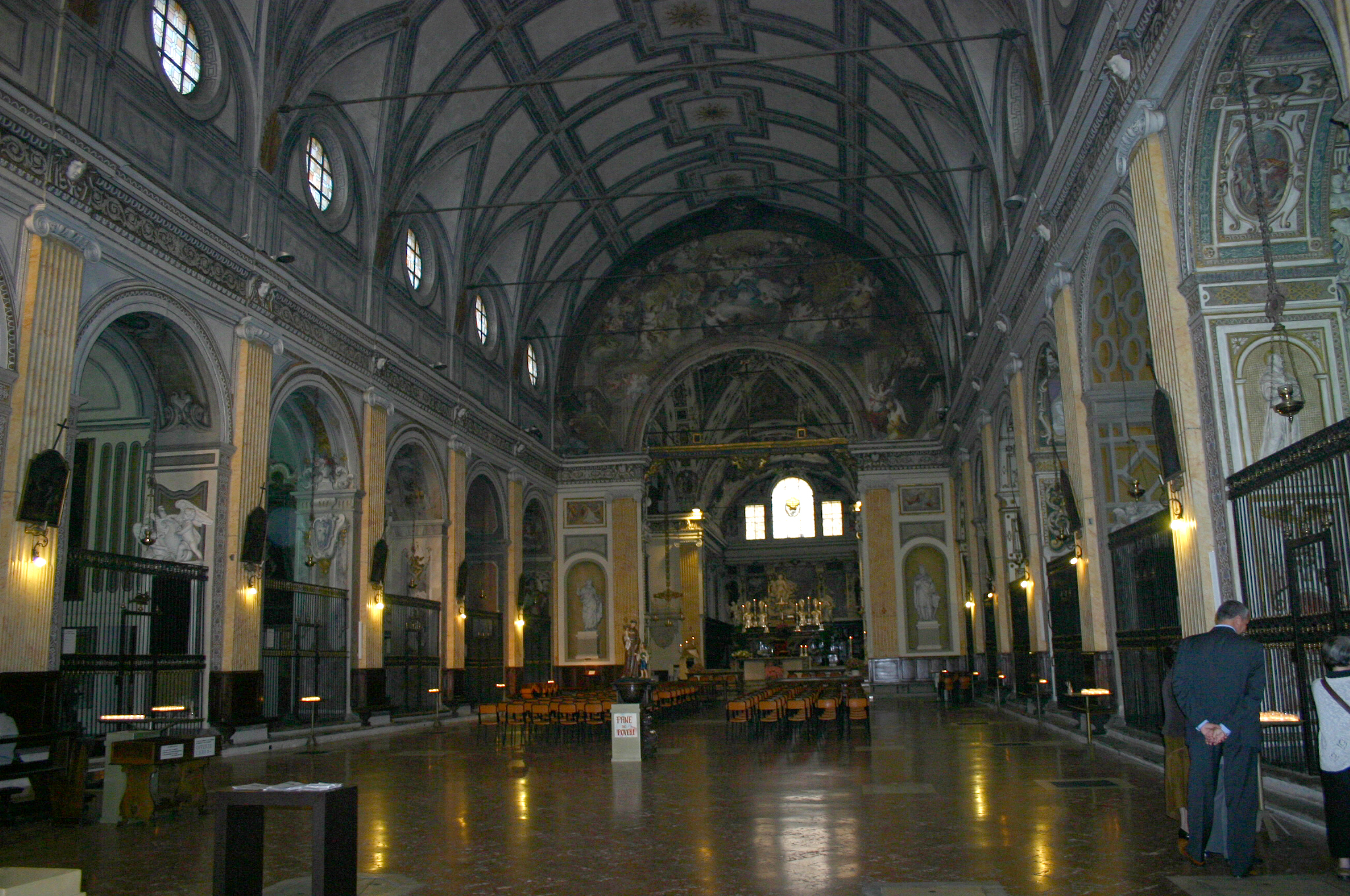 Inside view of Sant'Angelo church in Milan. Picture by Giovanni Dall'Orto, April 11 2007.